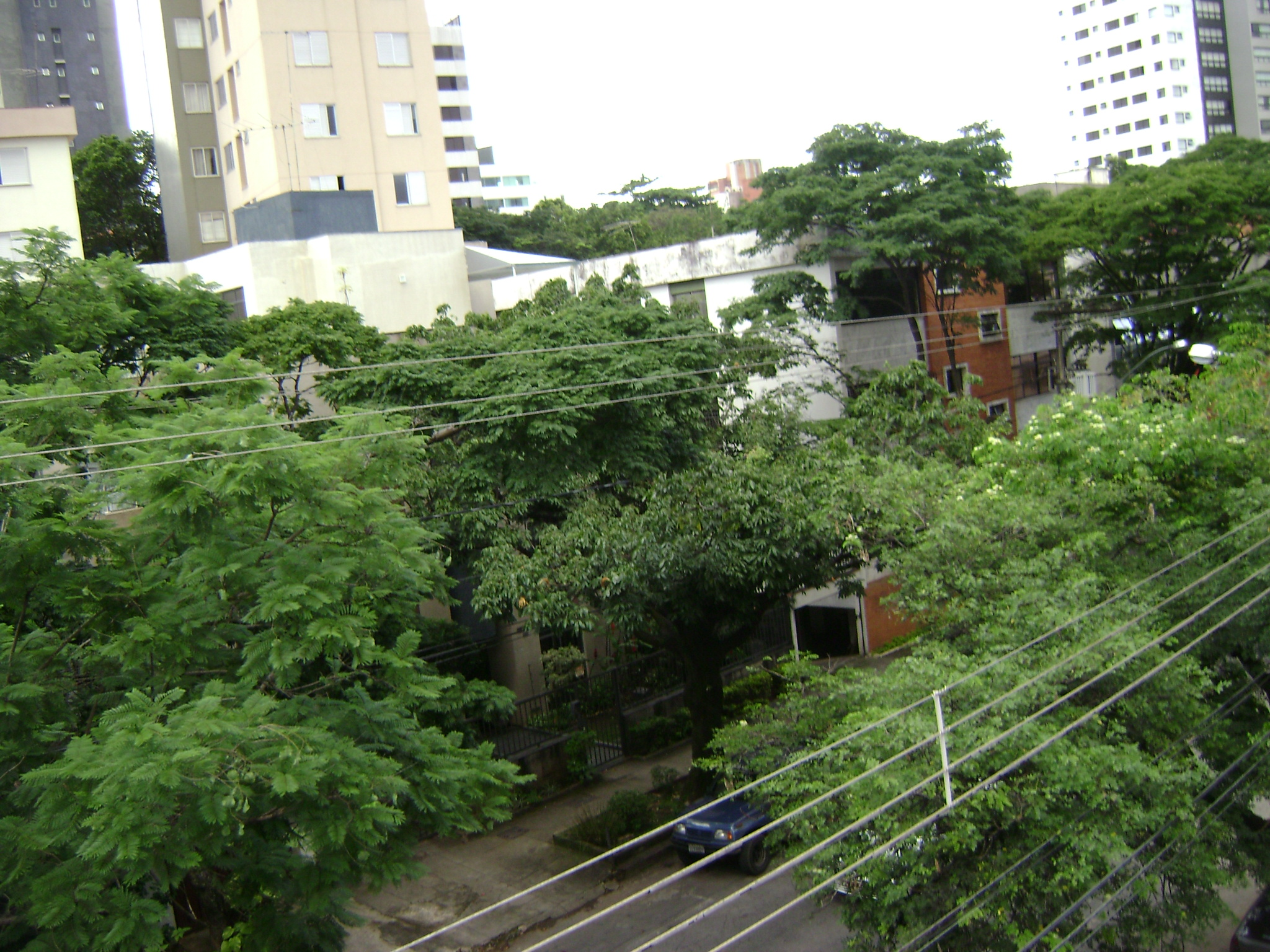 Anchieta, Belo Horizonte